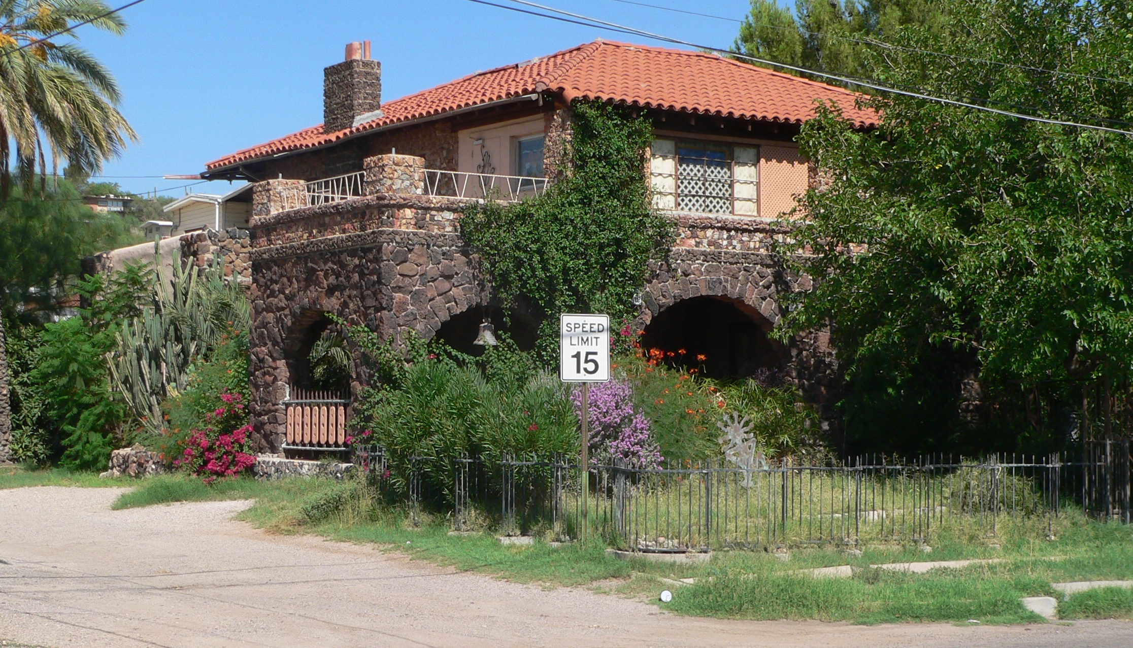 Building at 25 N. Westmoreland Avenue in Tucson, Arizona; seen from the southeast.